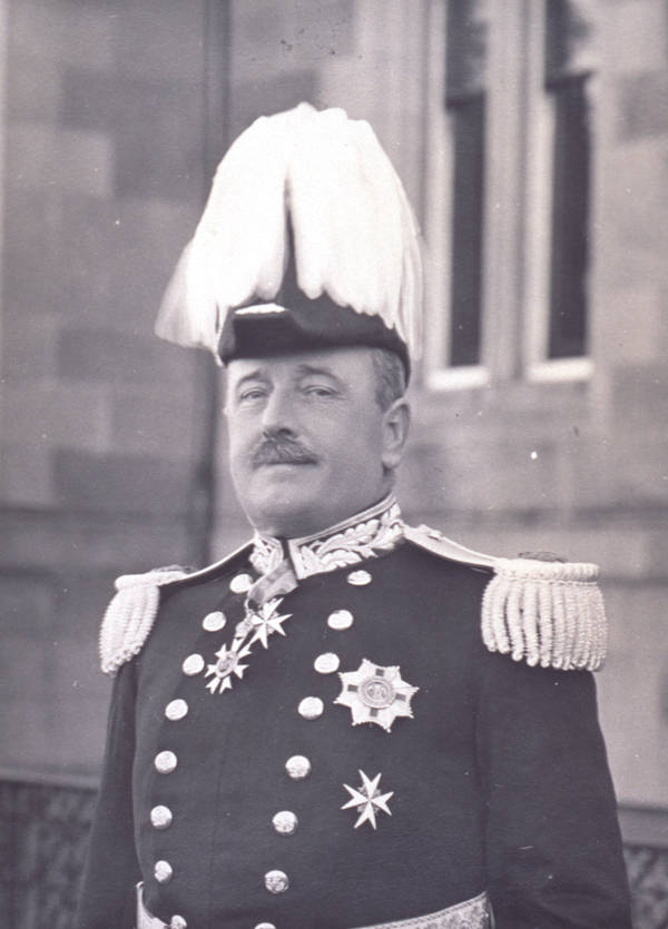 Photograph of Sir Francis Alexander Newdigate Newdegate GCMG.